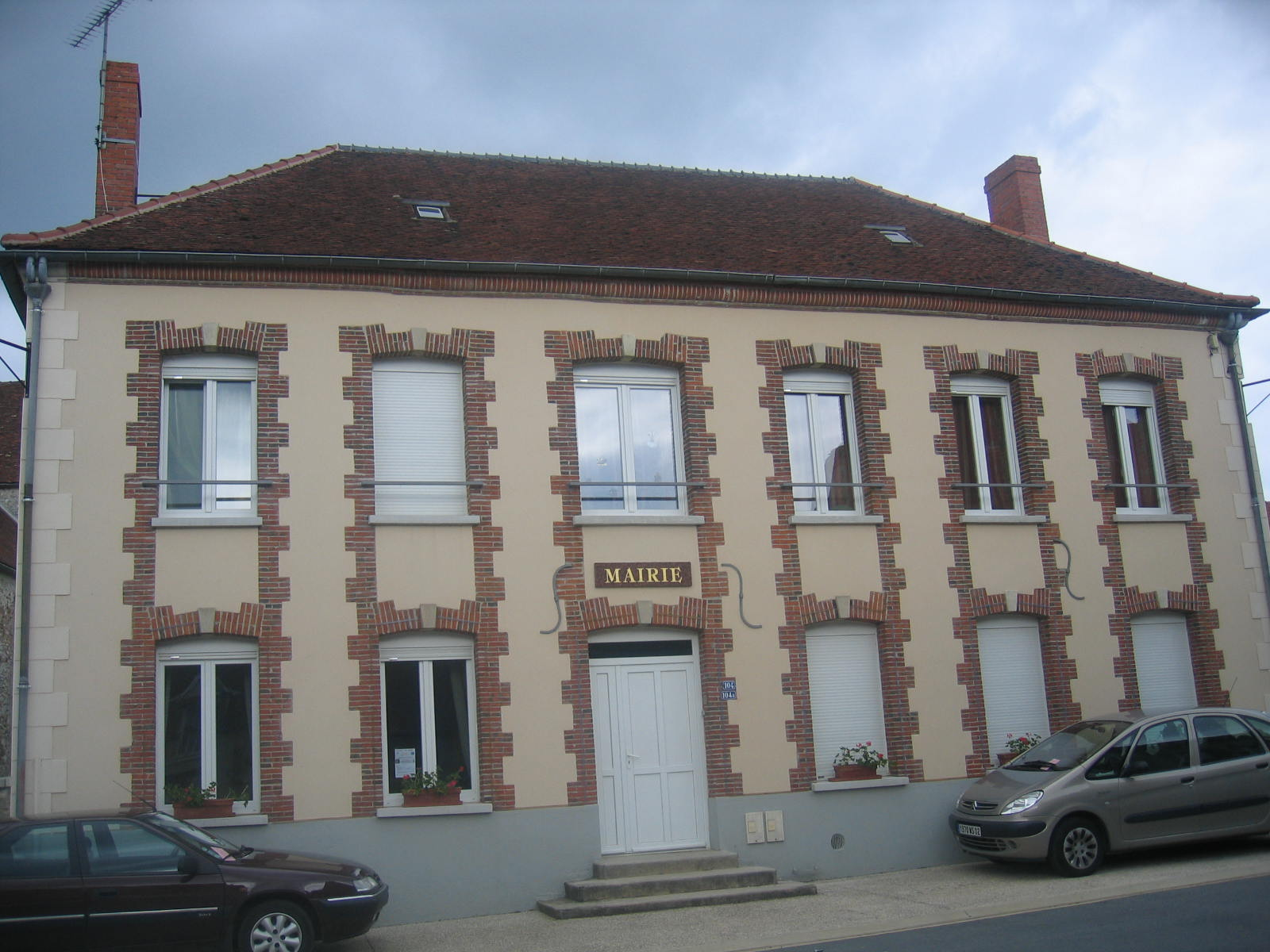 Town Hall, in Vauchamps (Marne) (Marne). The column is located in Vauchamps (Marne). Taken on june 4th 2006, by Thibault Taillandier.